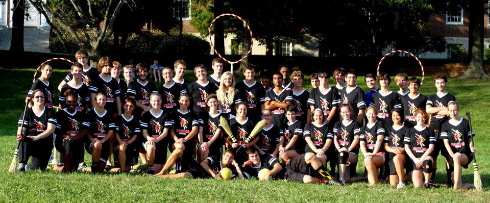 MD Quidditch team